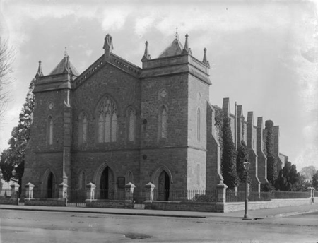 Methodist Church, Durham Street, Christchurch, photographed circa 1890-1915, probably by J M Marks.